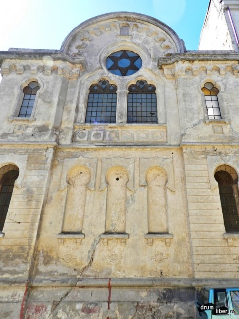 Great Synagogue, Constanța , Sinagoga Mare din Consțanta, Română